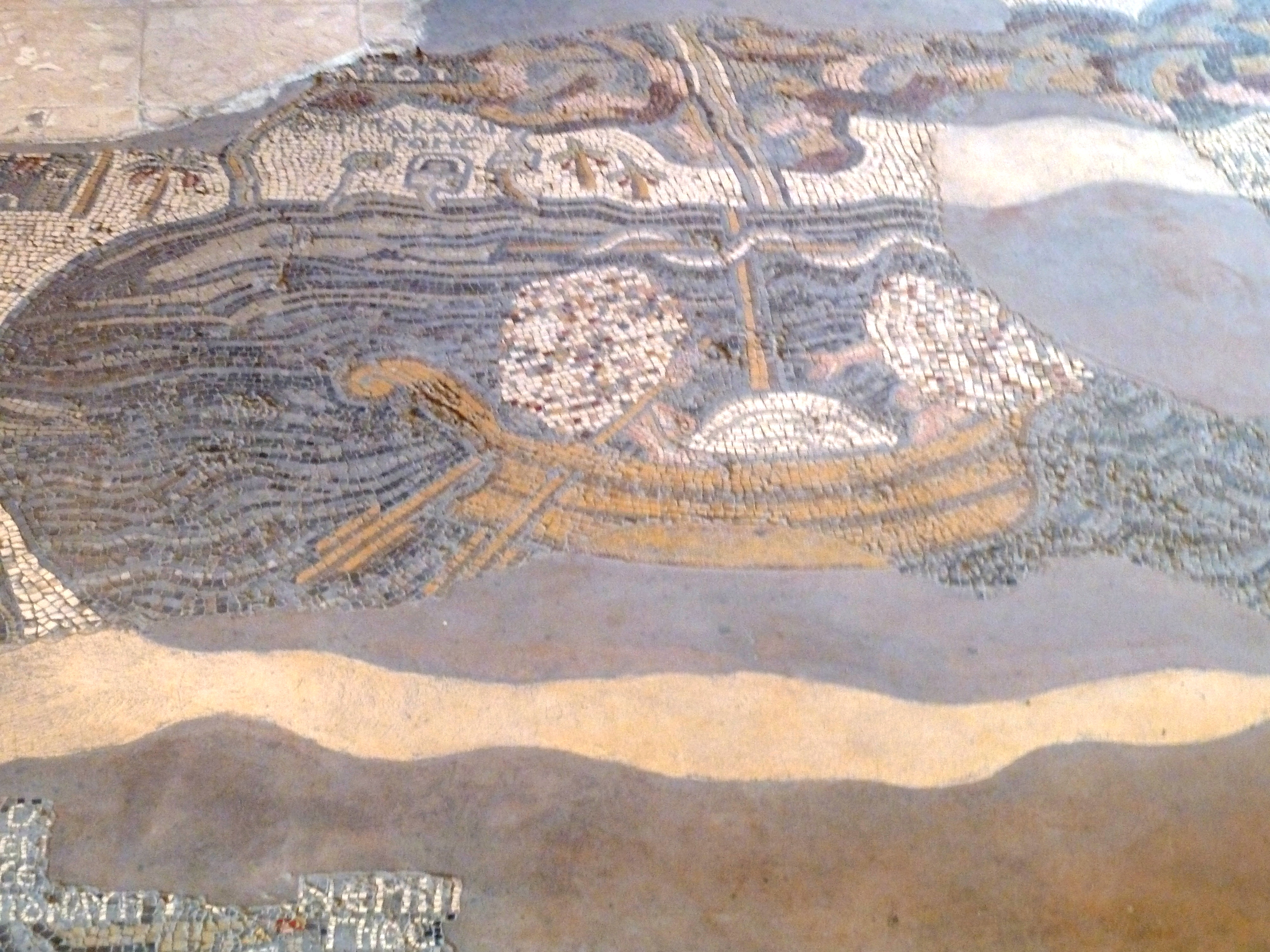 Byzantine floor mosaic map at St. George Church, Madaba, Jordan